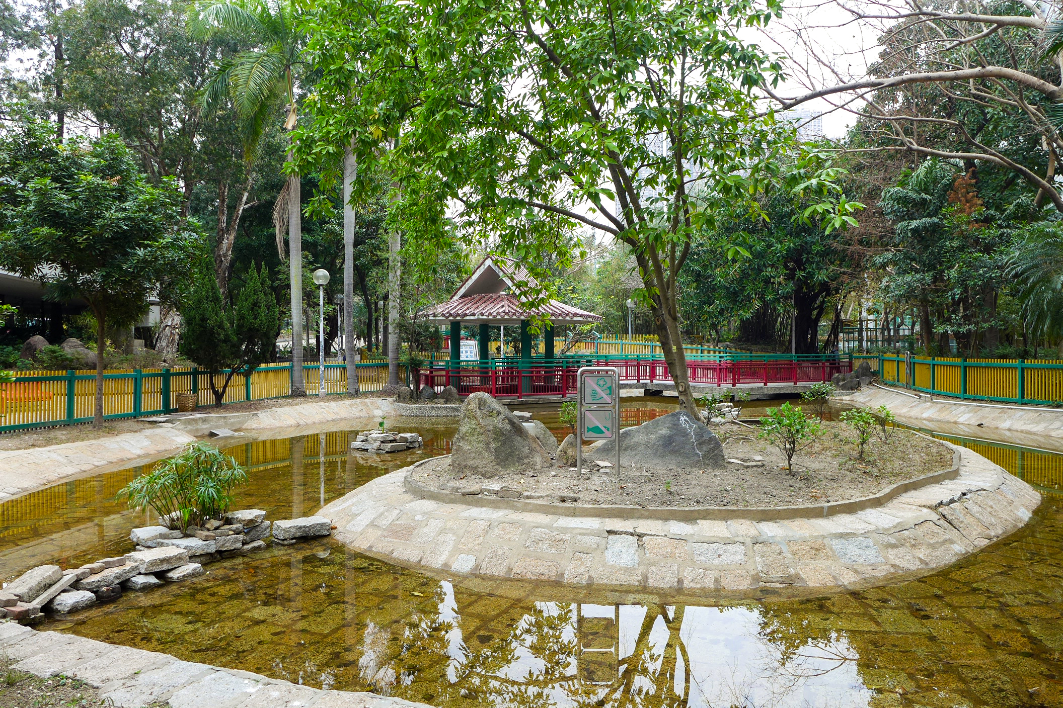 Butterfly Estate Pond